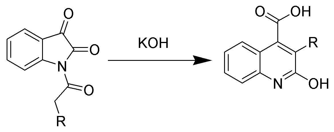 The Halberkann variation of the Pfitzinger reaction.